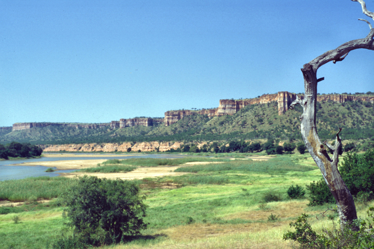 Chilojo Cliffs (Landscape), Gonarezhou National Park, Zimbabwe